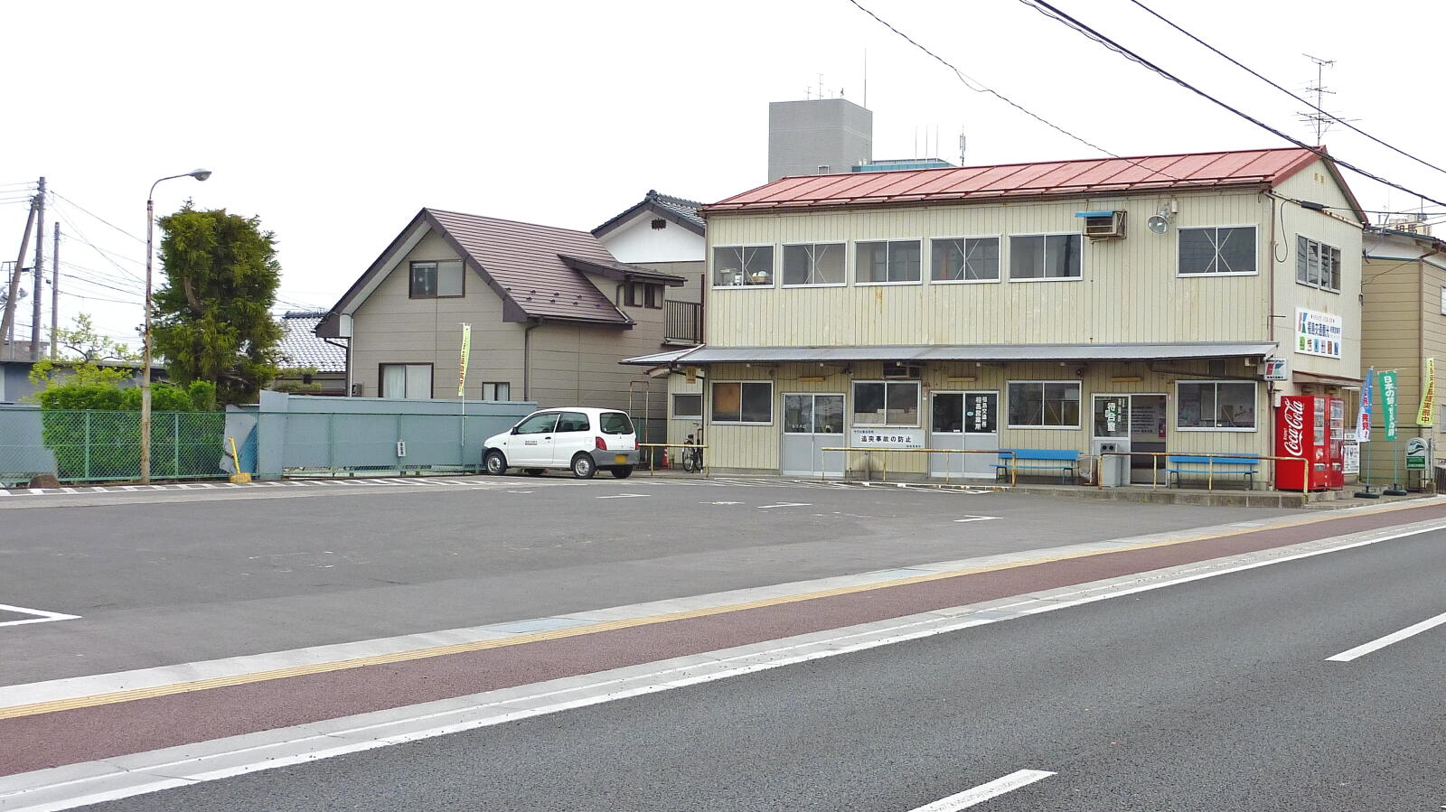 Fukushima Transportation Soma Depot